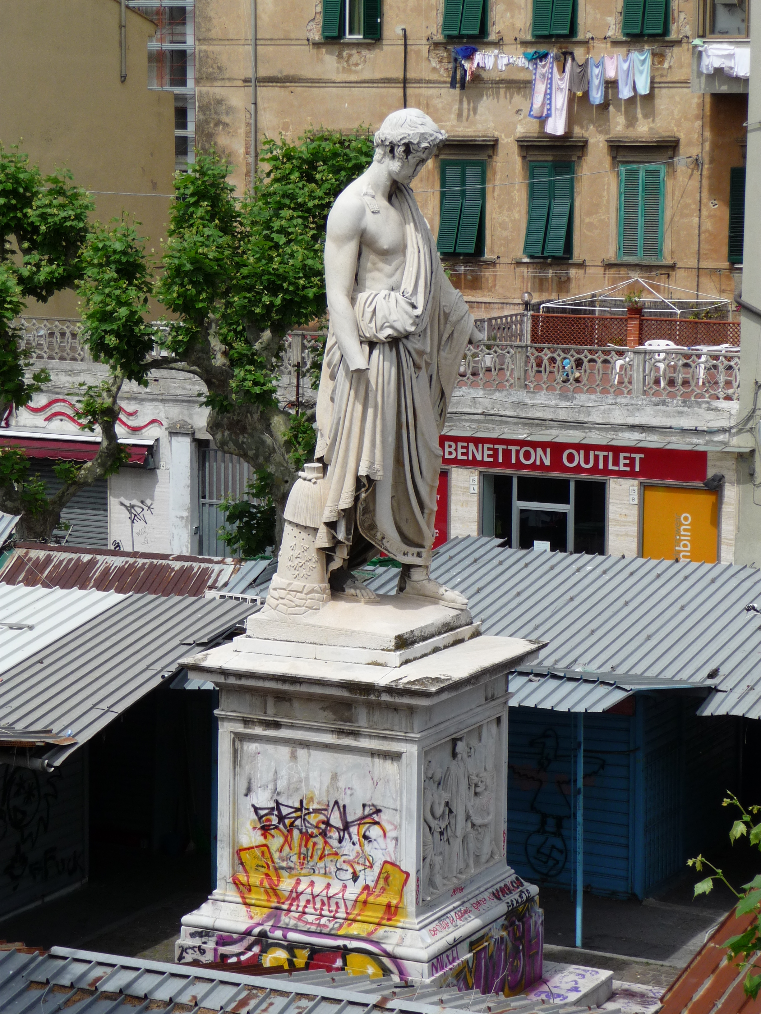 Monument for Leopoldo II, Piazza XX Settembre, Livorno, Italy.